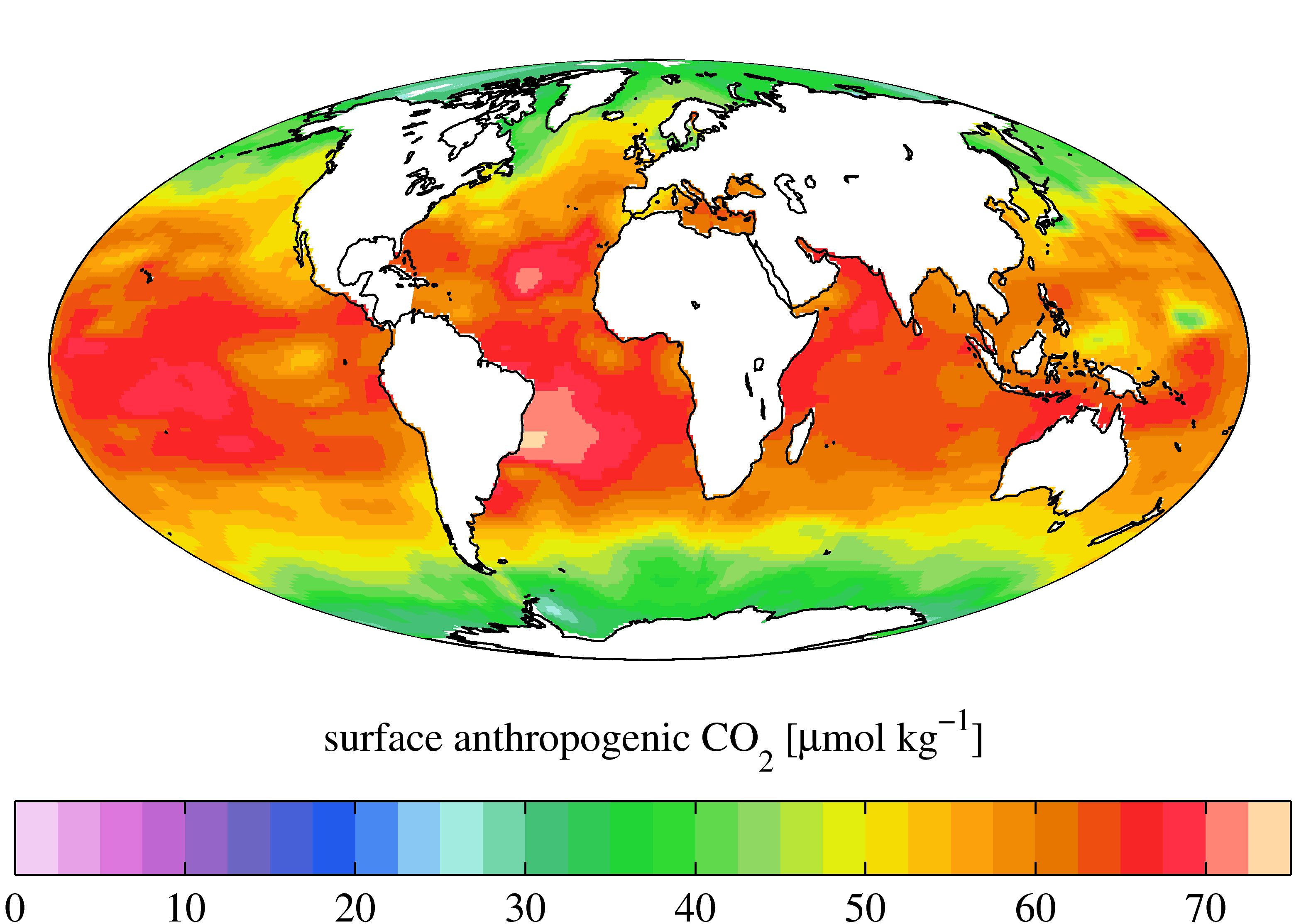 Estimated annual mean sea surface anthropogenic dissolved inorganic carbon concentration for the present day (normalised to year 2002) from the Global Ocean Data Analysis Project v2 (GLODAPv2) climatology. Sources are given below. The signal of anthropogenic DIC was separated from background, natural DIC by a mathematical technique. It is plotted here using a Mollweide projection (using MATLAB v2013a). Note that the GLODAPv2 climatology is missing data in certain oceanic provinces including the Arctic Ocean, the Caribbean Sea and certain inland seas. Lauvset, S. K., Key, R. M., Olsen, A., van Heuven, S., Velo, A., Lin, X., Schirnick, C., Kozyr, A., Tanhua, T., Hoppema, M., Jutterström, S., Steinfeldt, R., Jeansson, E., Ishii, M., Perez, F. F., Suzuki, T., and Watelet, S.: A new global interior ocean mapped climatology: the 1° × 1° GLODAP version 2, Earth Syst. Sci. Data, 8, 325-340, 2016 Key, R.M., A. Olsen, S. van Heuven, S. K. Lauvset, A. Velo, X. Lin, C. Schirnick, A. Kozyr, T. Tanhua, M. Hoppema, S. Jutterström, R. Steinfeldt, E. Jeansson, M. Ishi, F. F. Perez, and T. Suzuki. 2015. Global Ocean Data Analysis Project, Version 2 (GLODAPv2), ORNL/CDIAC-162, NDP-P093. Carbon Dioxide Information Analysis Center, Oak Ridge National Laboratory, US Department of Energy, Oak Ridge, Tennessee.